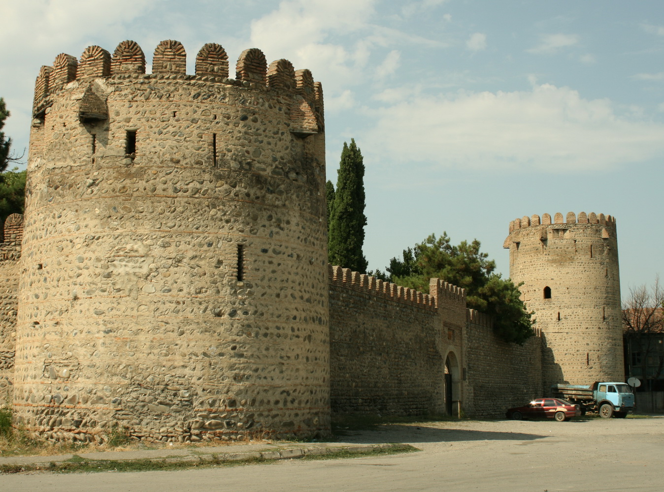 Fortres in Mukhrani